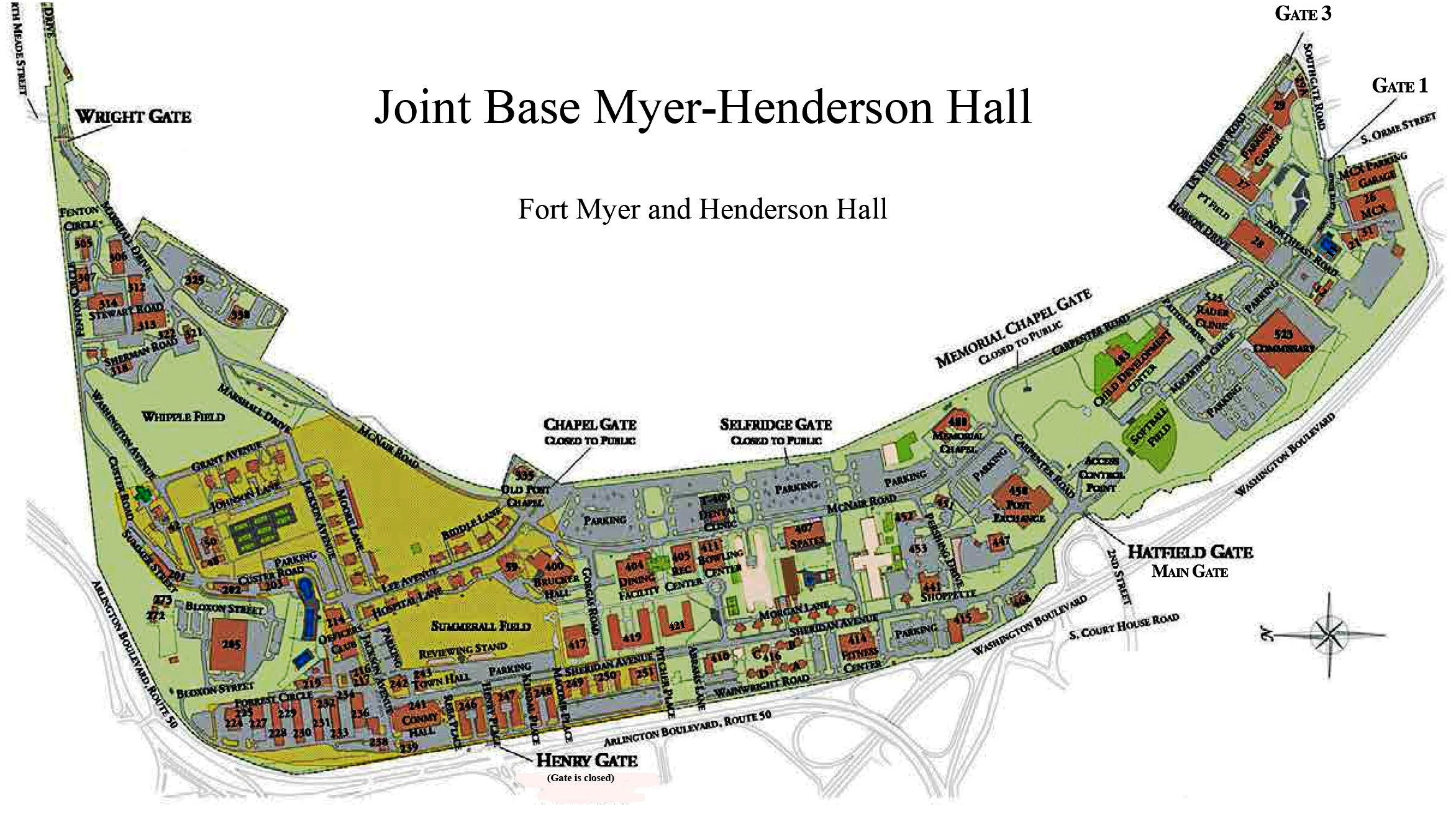 U.S. Department of Defense (US DoD) Joint Base Myer–Henderson Hall facility map